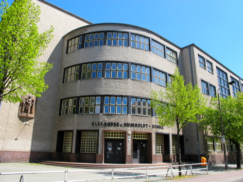 Alexander-von-Humboldt-Oberschule, Berlin-Köpenick, Architekt: Max Taut